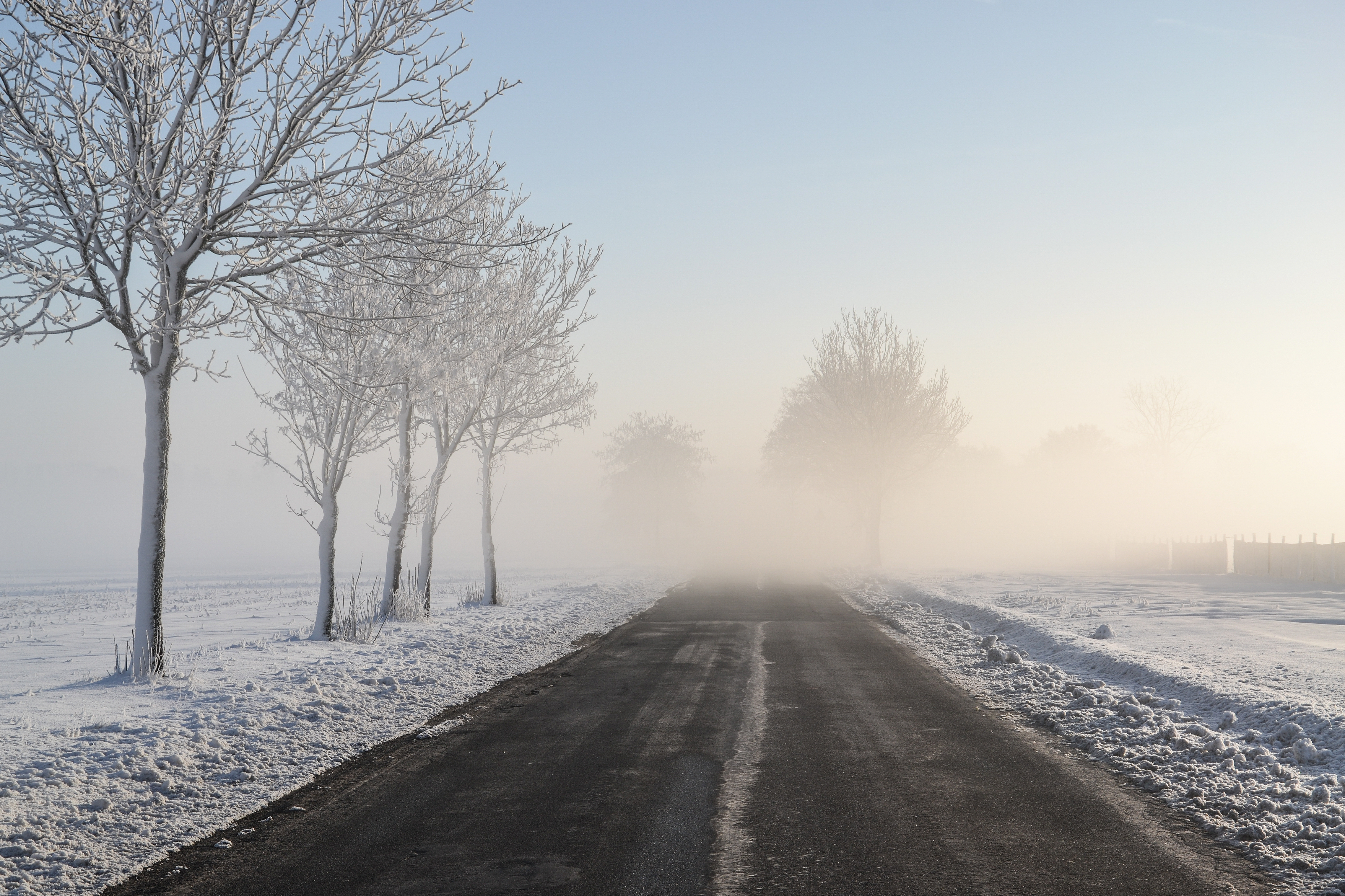 Morning fog in Upper Silesia (near city Prószków/Proskau)